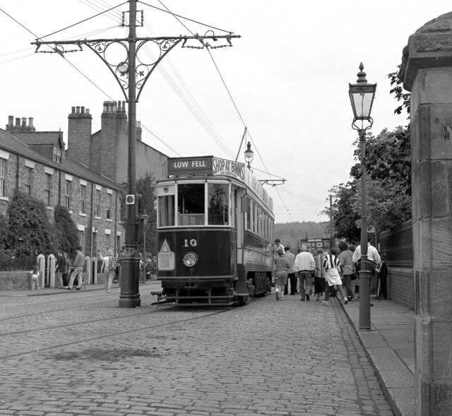 Beamish Museum, County Durham, England. This is the view east down the main street in Town. Tram No. 10 is loading at the stop outside Redman Park, while working a westbound journey. Ravensworth Terrace is on the left.